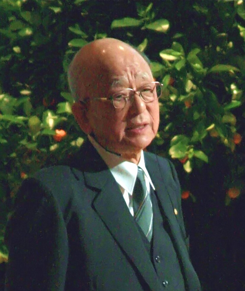 Akira Suzuki, awarded the Nobel Prize in Chemistry for 2010, at his Nobel lecture in Stockholm University